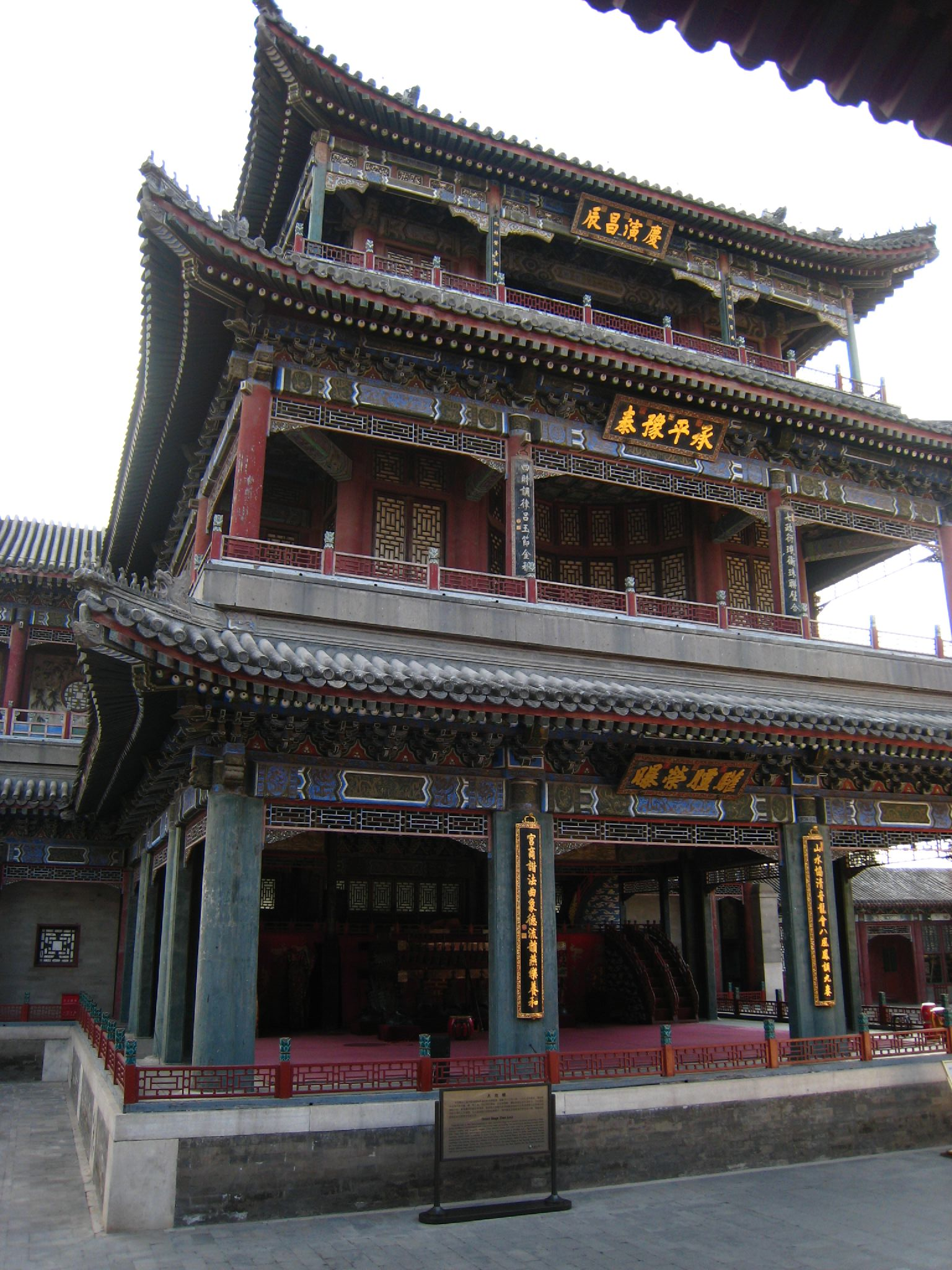 The stage of the Peking Opera House at the Summer Palace, Beijing